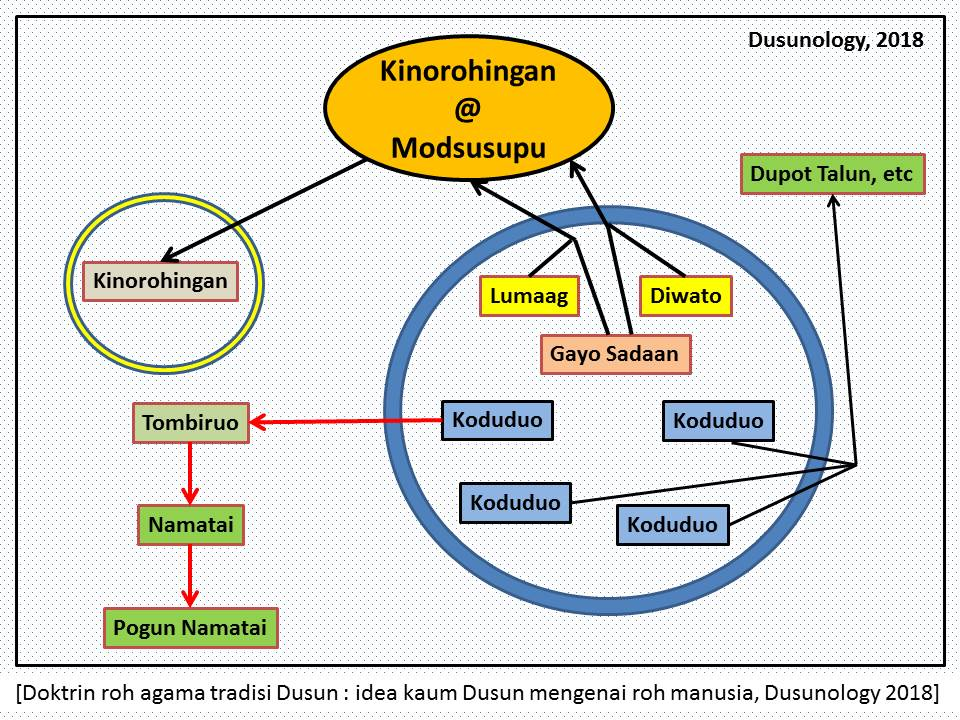 Mongolu merupakan proses tahapan transformasi tujuh roh Dusun